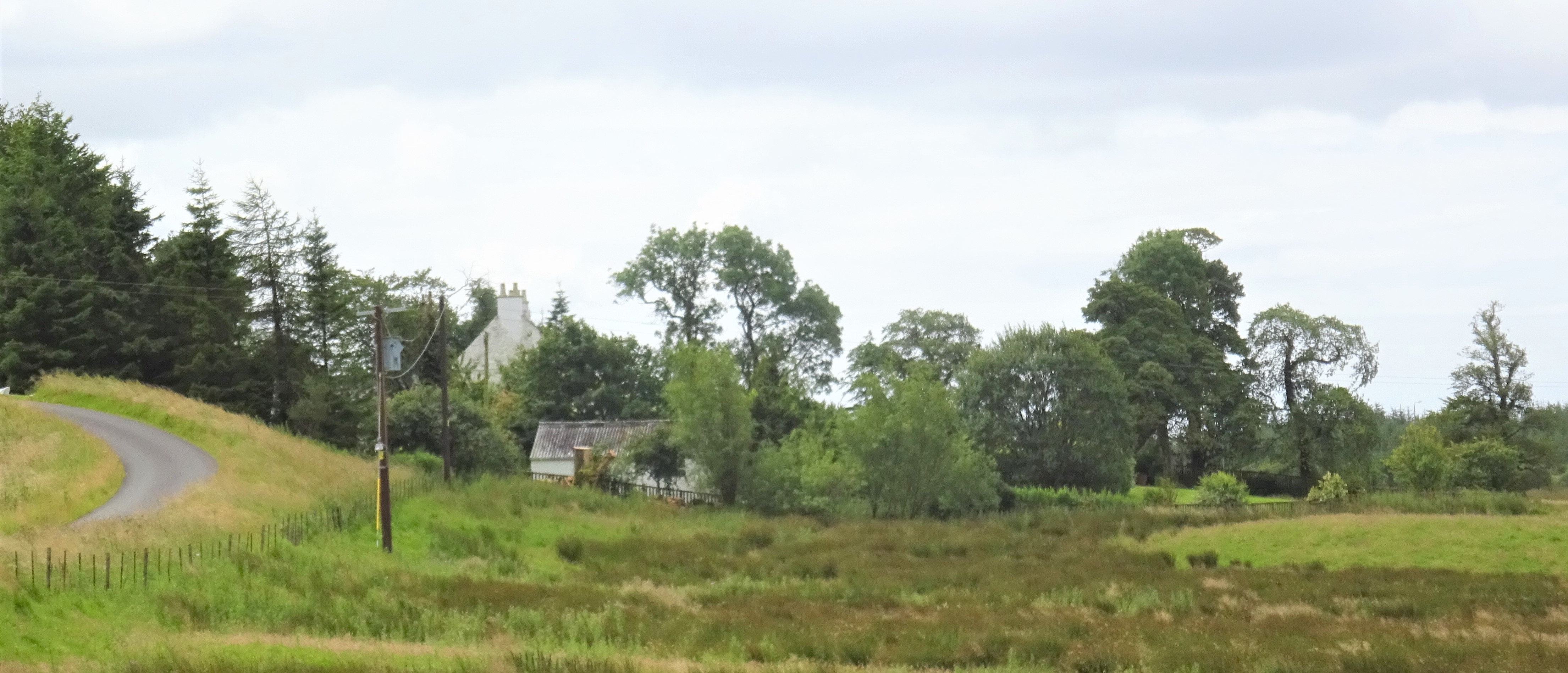 King's Well, Eaglesham Moor, East Ayrshire. It is said that King James V stopped here at the old inn and watered his horse. Nearby is King's stable where his horse sank into the bog!